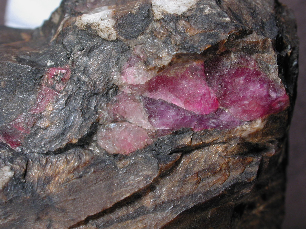 Sugilite Locality: Woods Mine (Wood's Rhodonite Mine), Tamworth, Darling County, New South Wales, Australia Sugilite clot is 1 cm across and is the largest known specimen from the Woods Mine. The sugilitie is within a matrix of brown cleavages of a 'mineral' that is quite unstable. Upon exposure to the atmosphere the unstable 'mineral' changes from snow white to brown within a couple of weeks. It appears to be photosensitive. Attempts to describe the brown mineral as a new mineral have not been accepted by the IMA beacuse the chemical composition cannot be determined within the same narrow definable ranges as required for most minerals (Douglas Coombes personal communication 2010). Note that the specimen has been coated with lacquer in an unsuccesful attempt to retard alteration of the specimen. Lacquer will retard oxidation, but did not prevent the matrix of this specimen altering from white to brown.